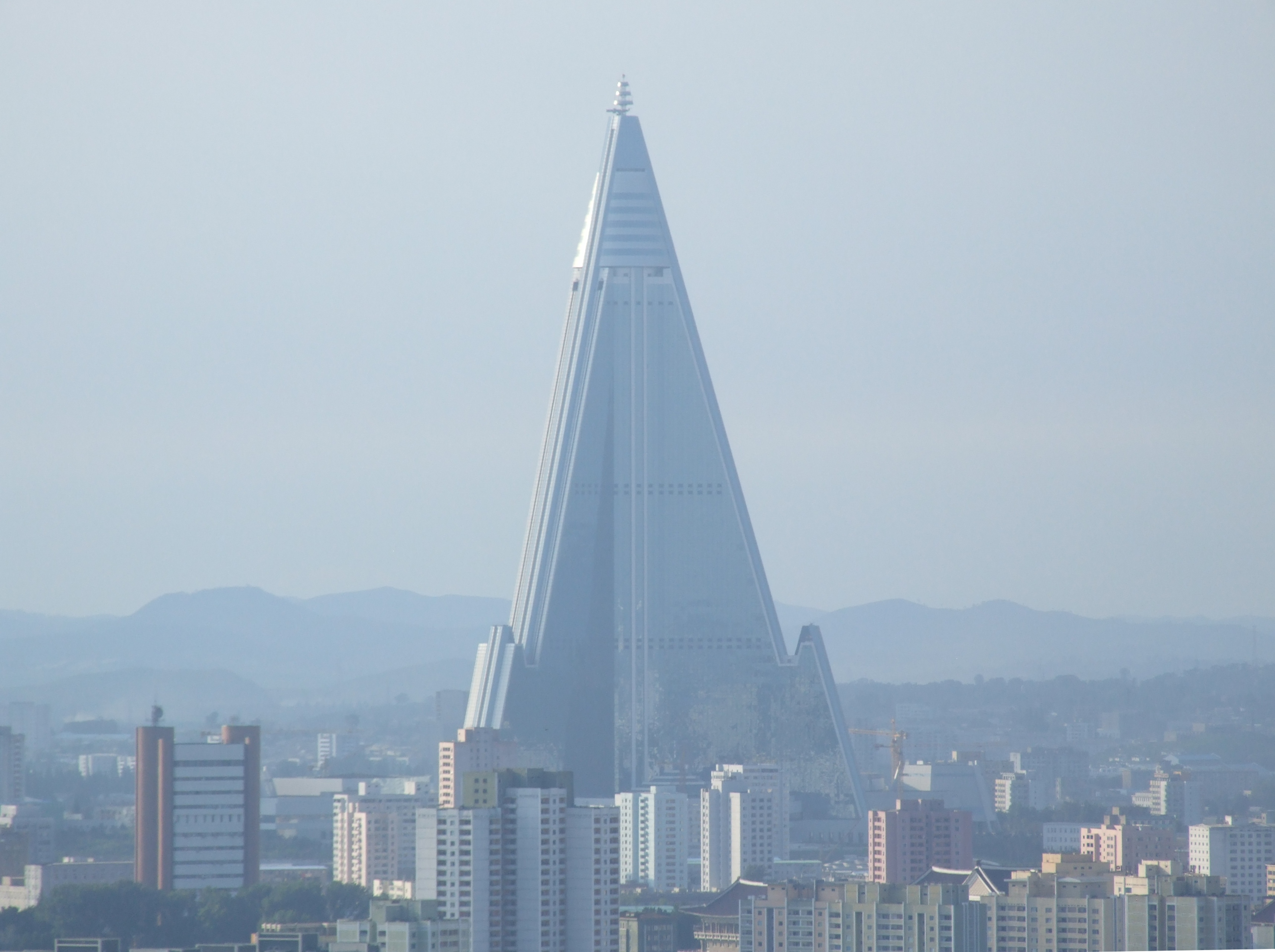 View from Yanggakdo International Hotel: Ryugyong Hotel